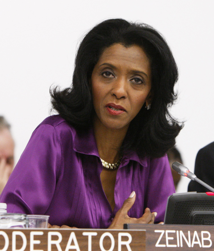 Zeinab Badawi moderating an interactive panel discussion titled “Invest Today for a Safer Tomorrow” at a UN General Assembly’s debate on disaster risk reduction.